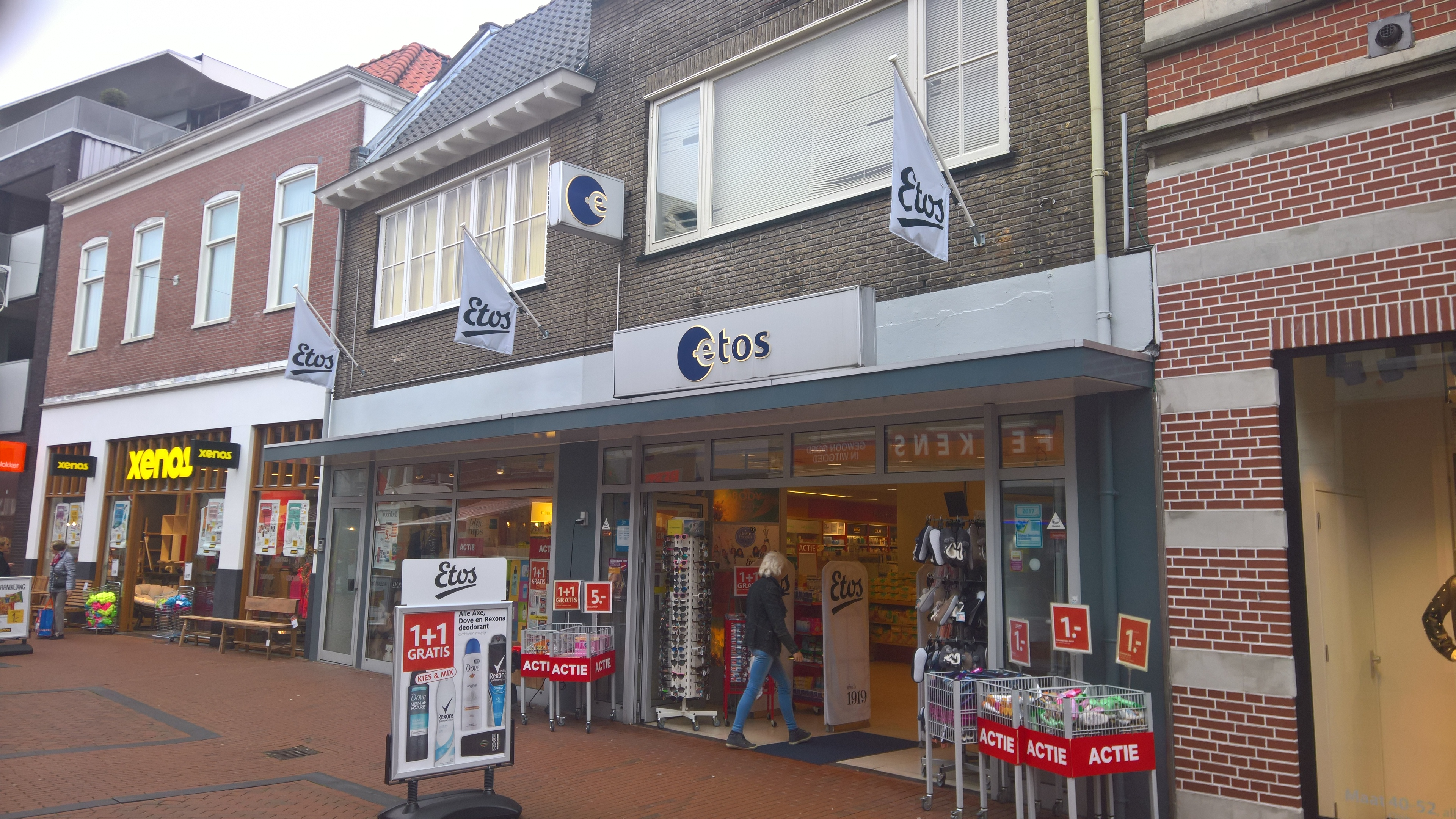 An Etos store specialised in health and cosmetic products.